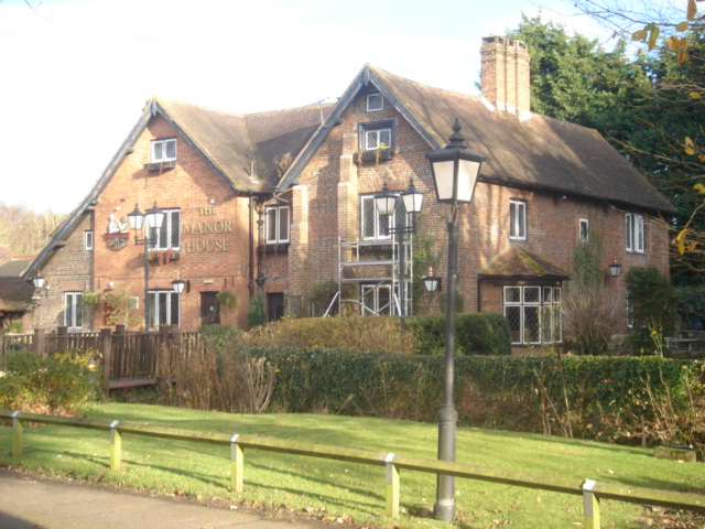 Hyders Hall (Gatwick Manor Inn), London Road, Crawley, West Sussex, England: a 15th-century hall-house (one of several in Crawley) with subsequent alterations and enlargements. It was originally surrounded by a moat, part of which remains. Now a pub and restaurant. Listed at Grade II* by English Heritage (IoE code 363383)